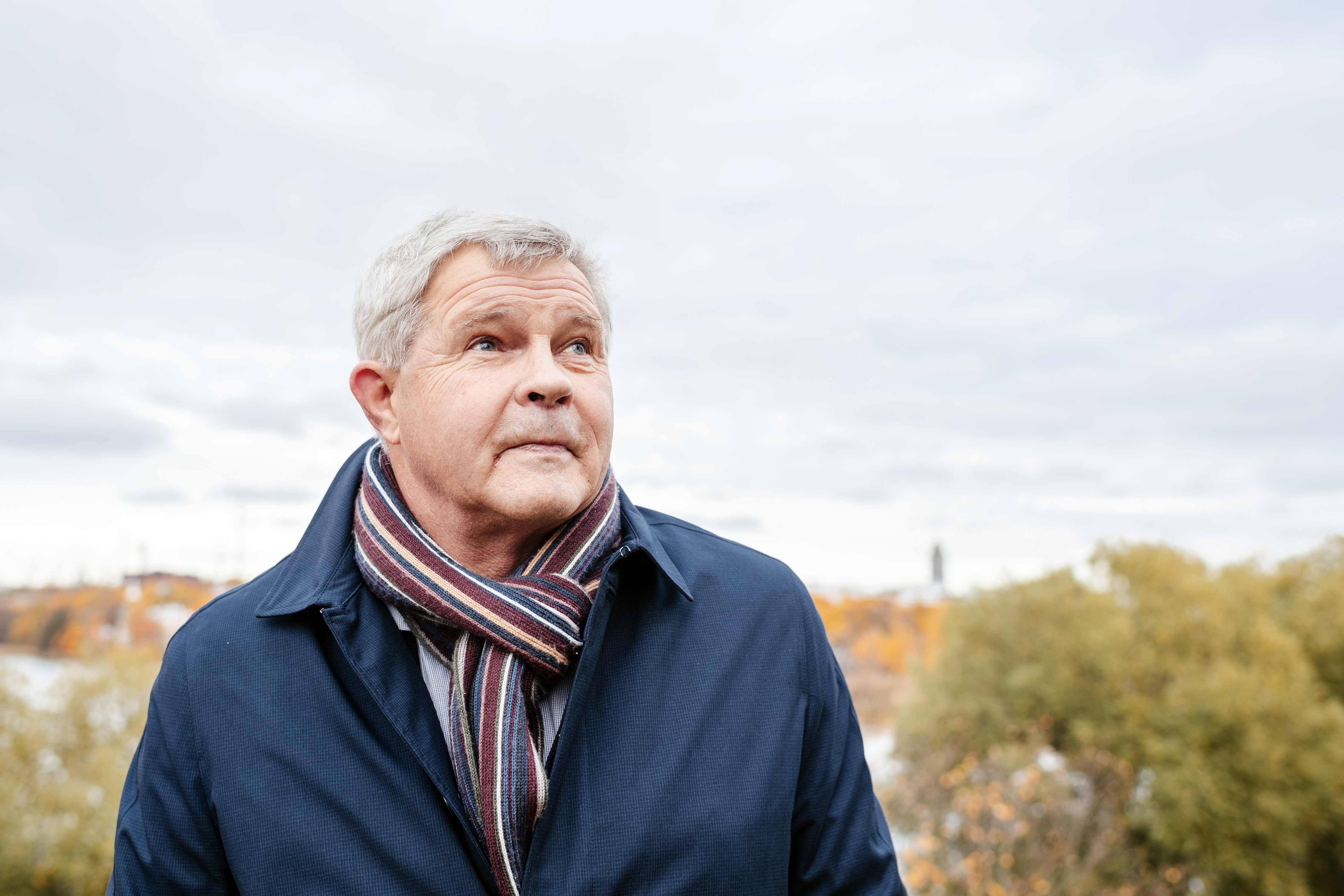 Kansanedustaja Matti Semi (vas.) Töölönlahdella 15. lokakuuta 2019.